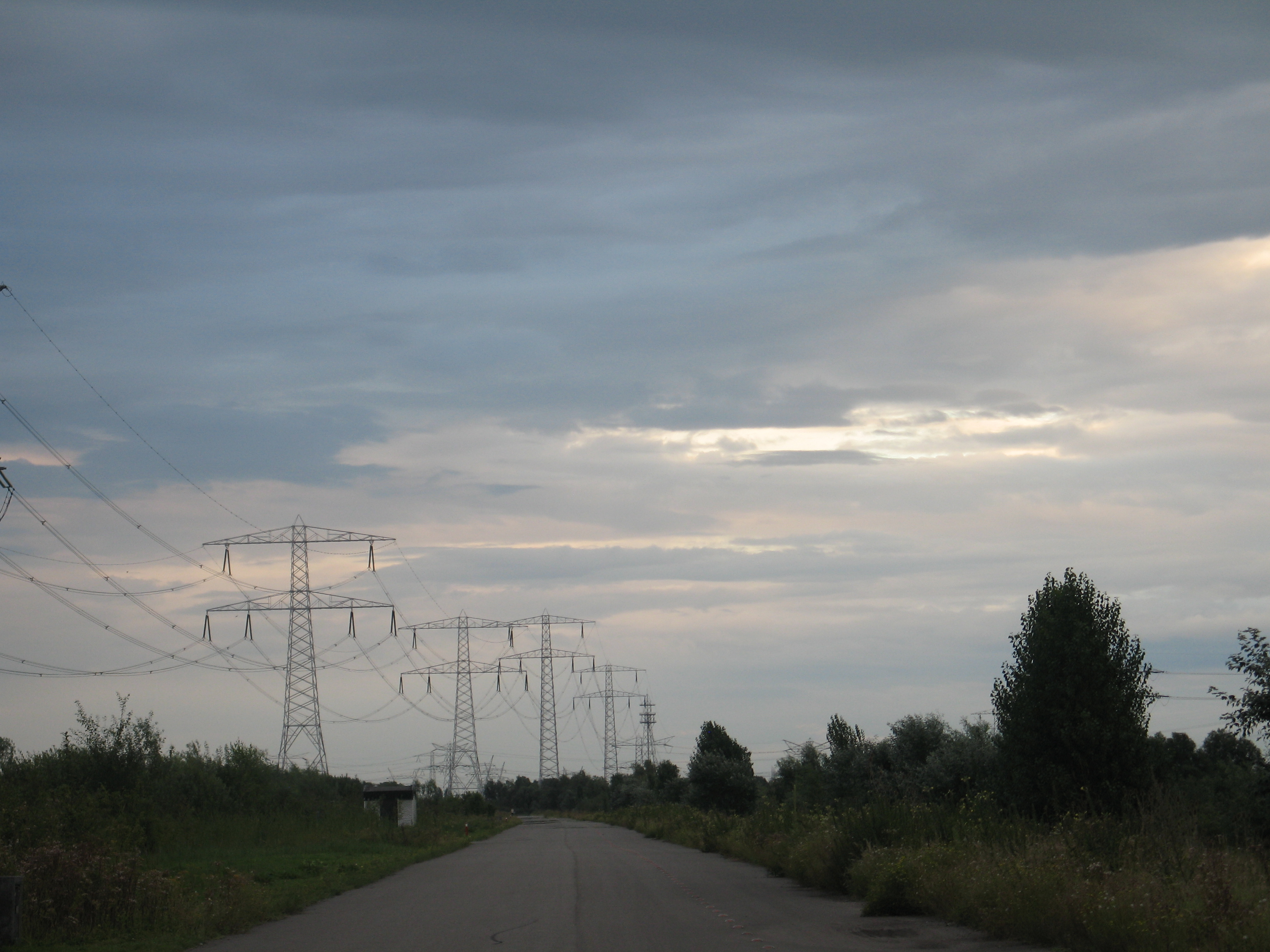 The Diemerpark on the outskirts of Amsterdam on a warm summer evening in 2007